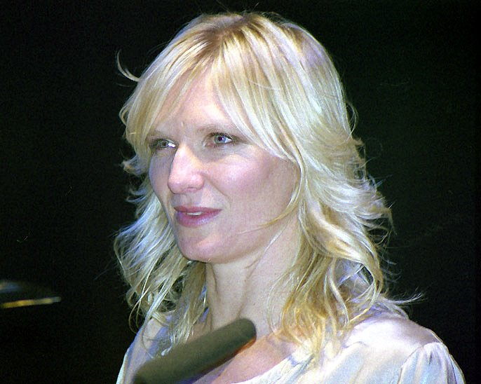 Original - Image:Jo Whiley.jpg